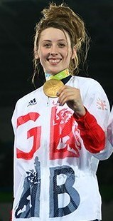 Jade Jones won gold medal in taekwondo at The 2016 Summer Olympics in Rio de Janeiro